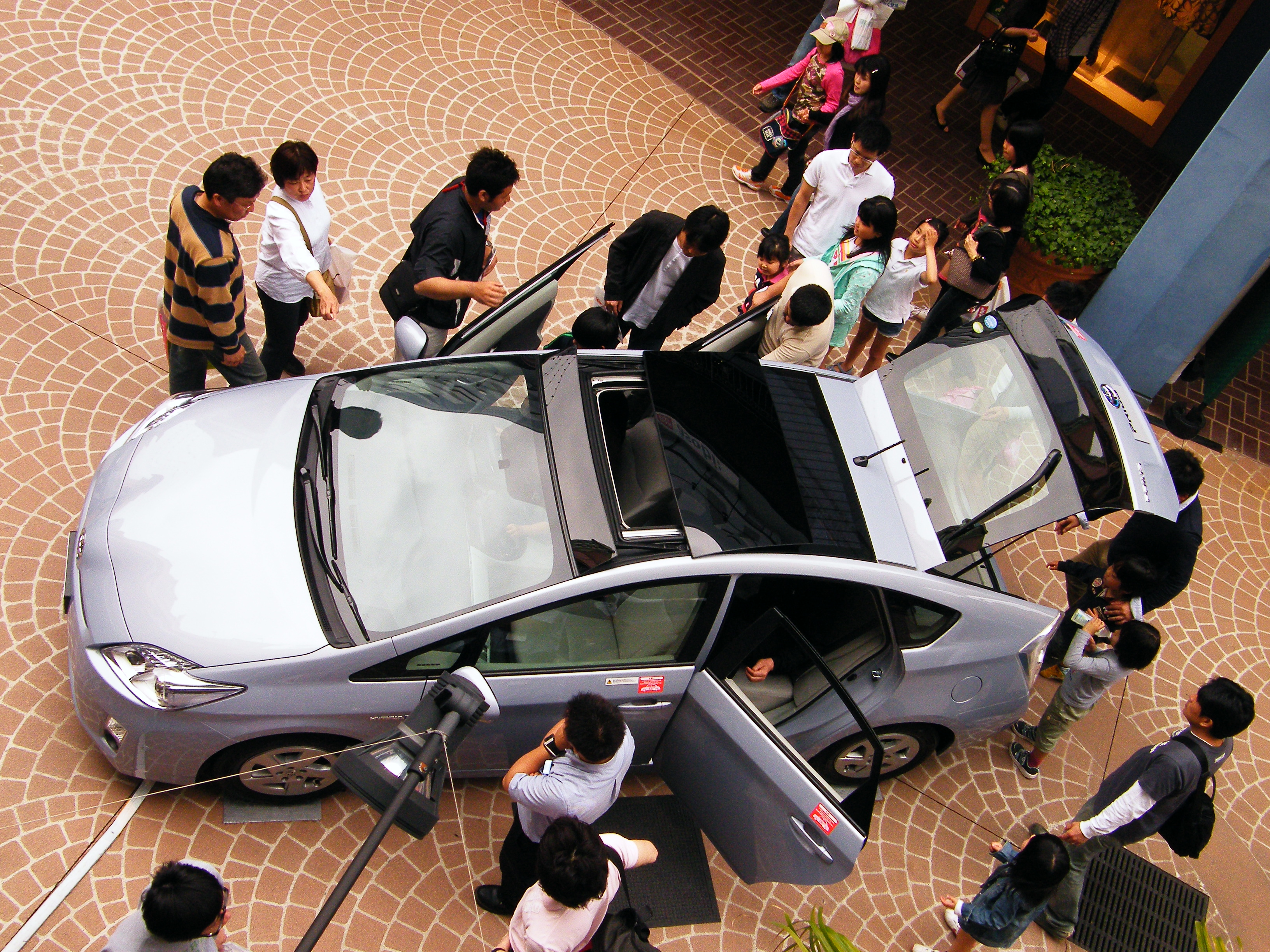 New Prius got a solar panel